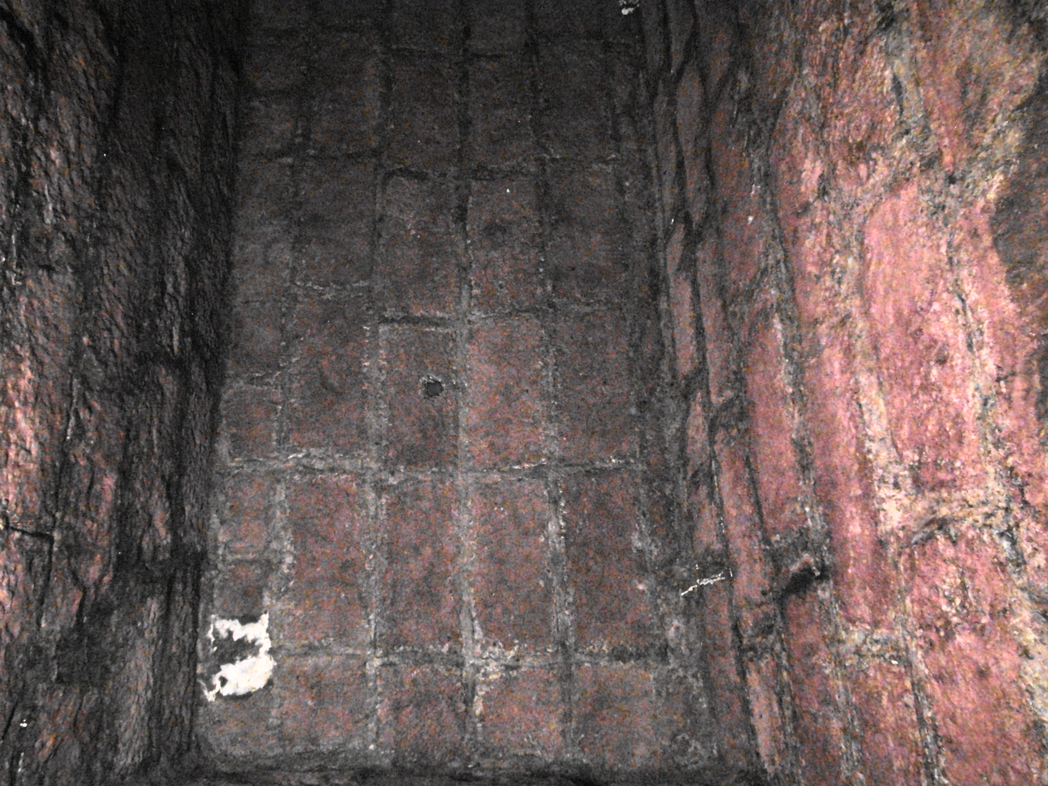 Stone fermentation tank of Lumiere